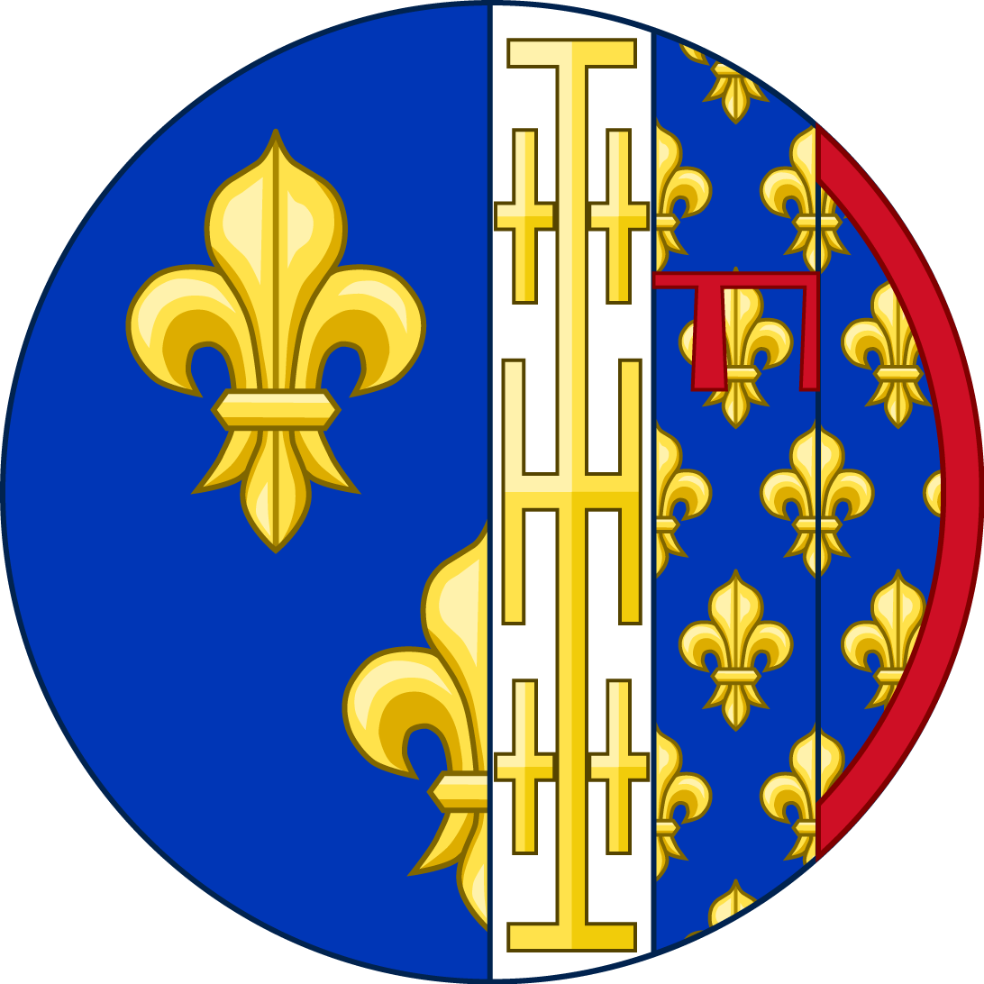 CoA of the queen Marie of Anjou, wife of Charles VII the Victorious. To improve if necessary.